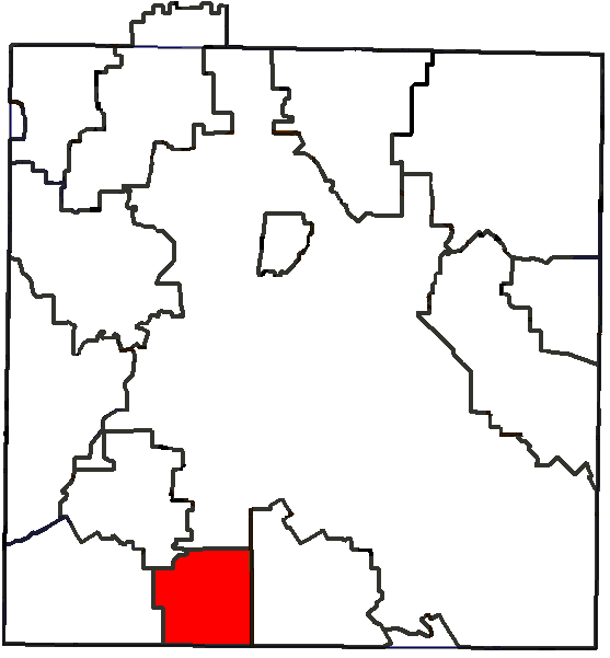 Map of Dallas County highlighting the DeSoto Independent School District; created with the GIMP. Made by User:Acntx.